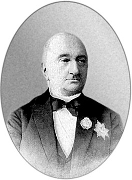 Delyanov Ivan Davydovitsch (1817-1897) - ministr of Russia